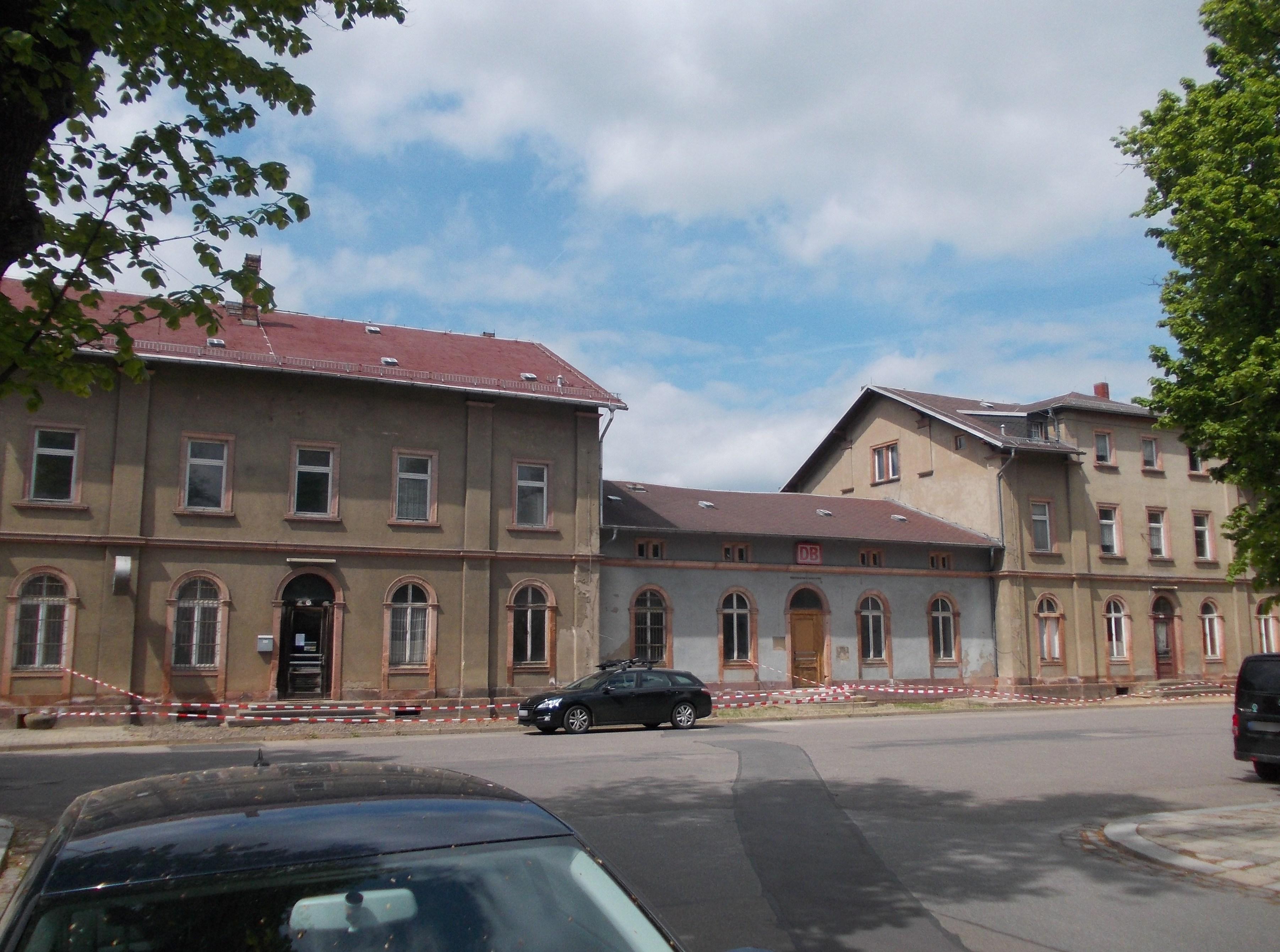 Rochlitz train station (Mittelsachsen district, Saxony)